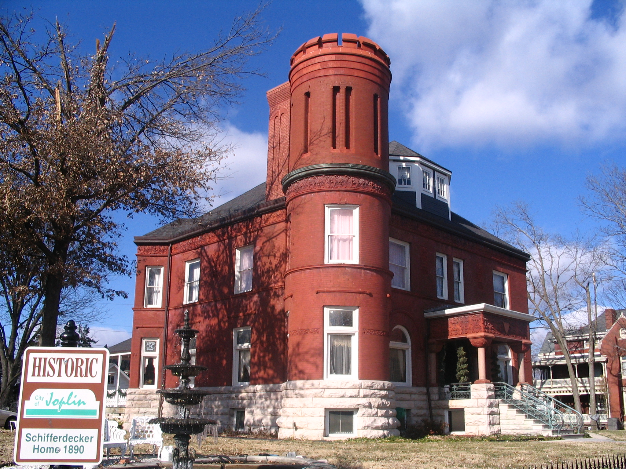 Schifferdecker Home